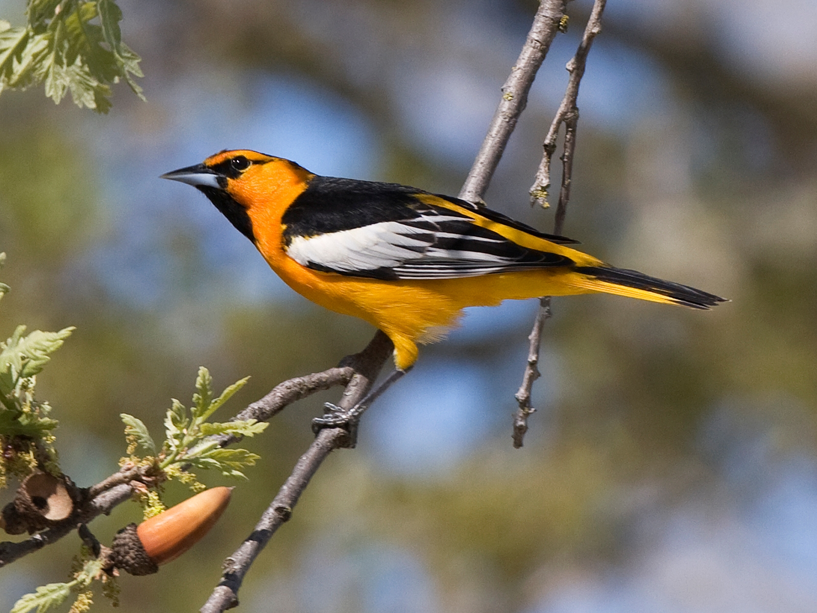 Male Bullock's Oriole (Icterus bullockii) at Atascadero Lake